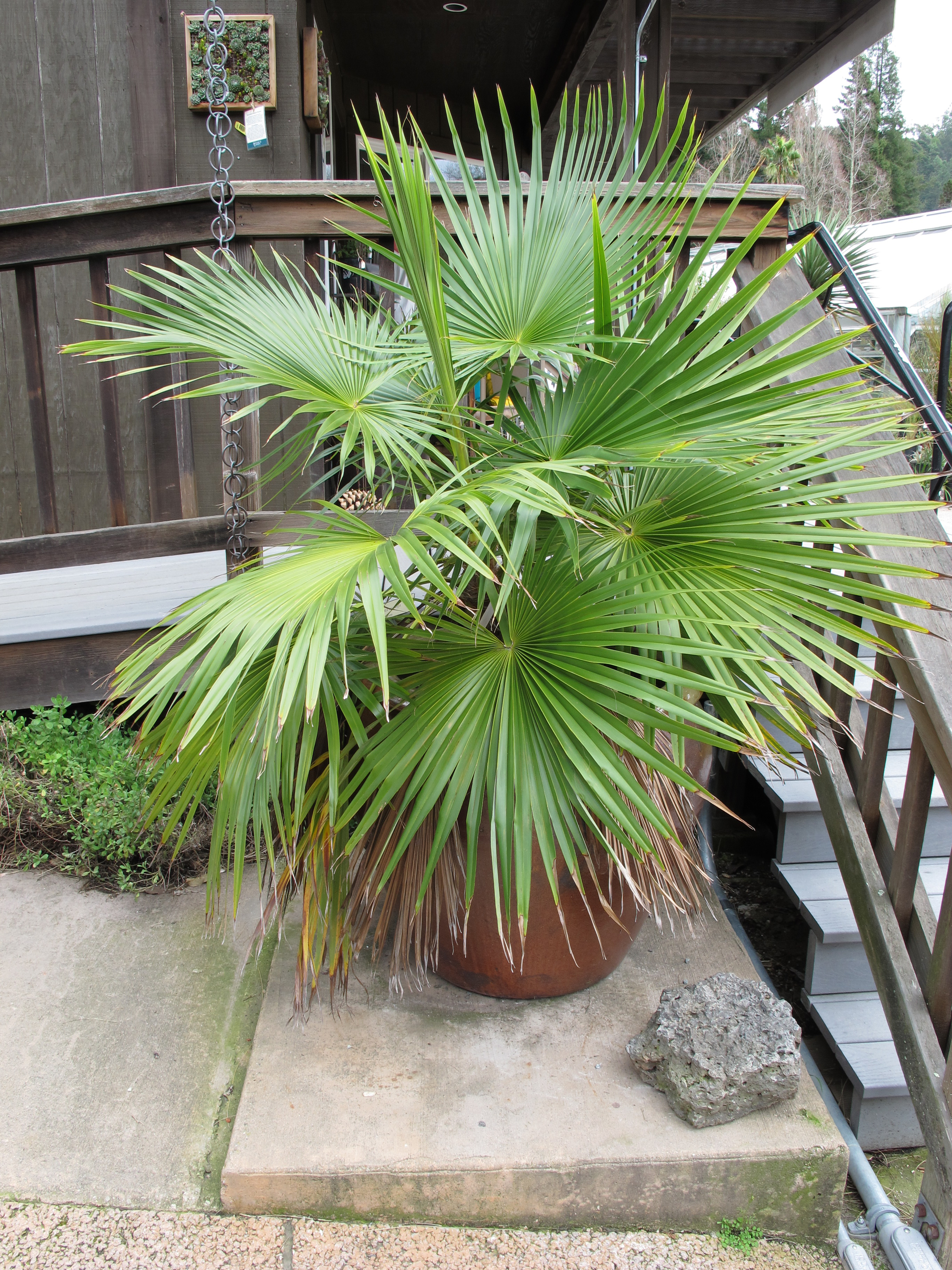 Brahea calcarea, University of California Botanical Garden at Berkeley, California, USA.